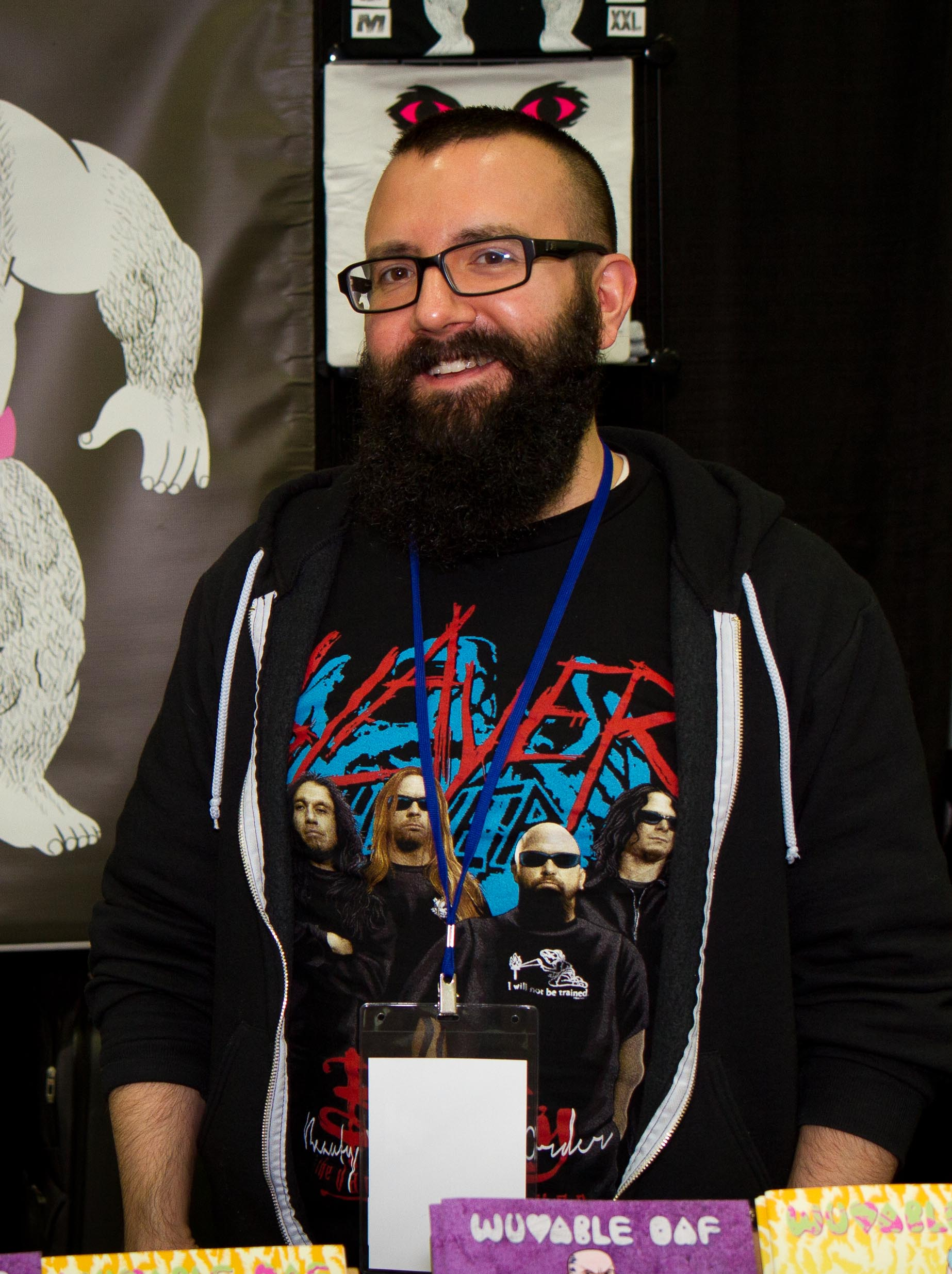 Ed Luce of Goteblud Comics